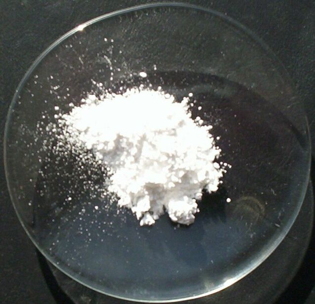 A sample of magnesium oxide. Picture taken by User:Walkerma, March 2006.